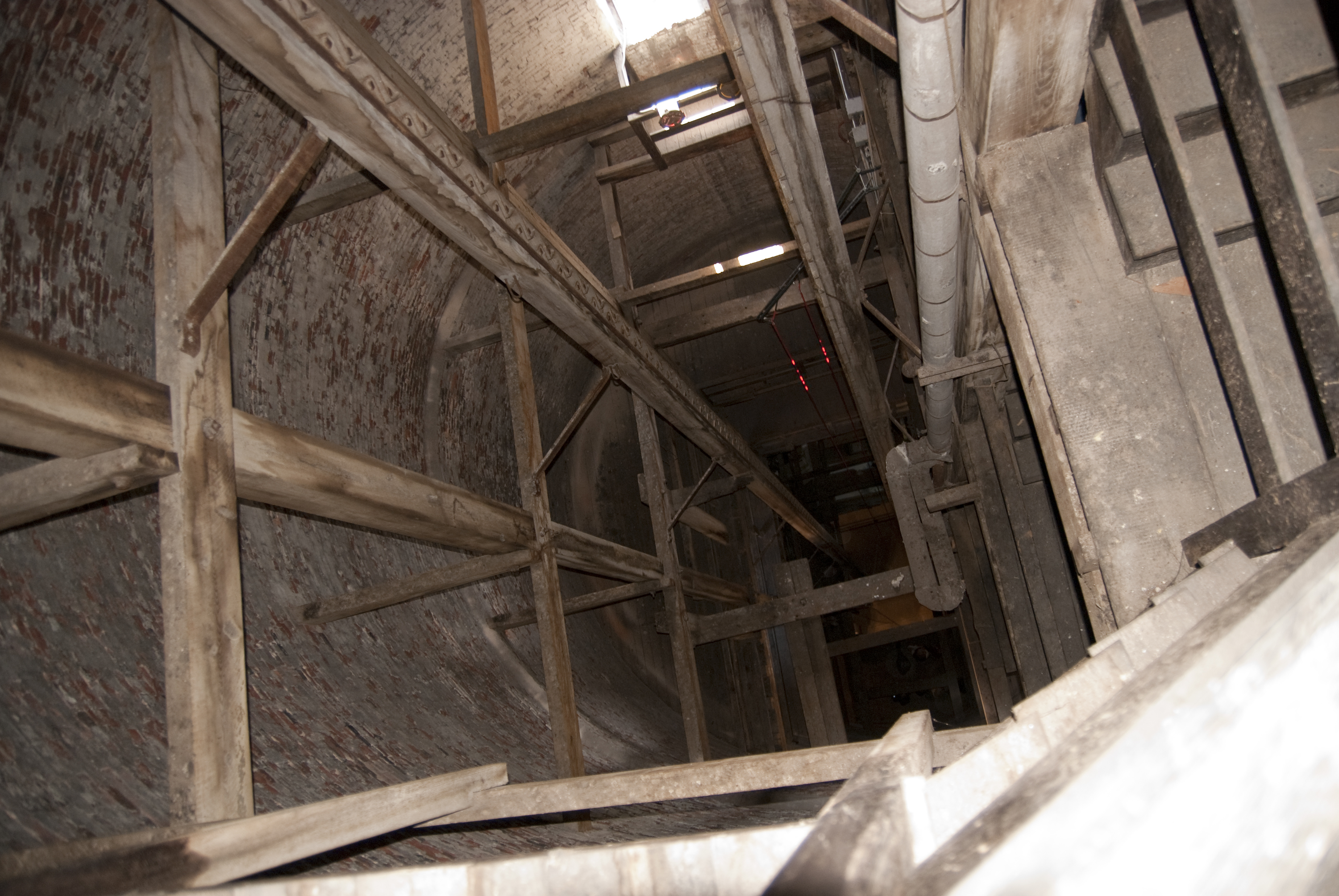 Photo courtesy of James Singewald.